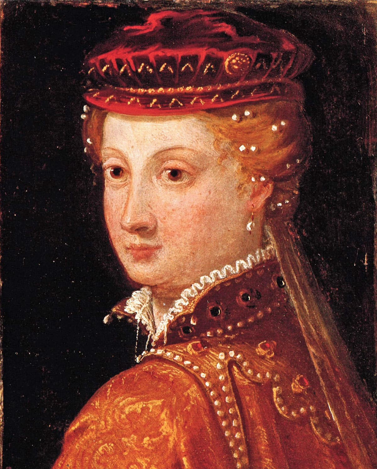 Portrait of Paola Malatesta (1393-1449), wife of Francesco I Gonzaga, Marquess of Mantua